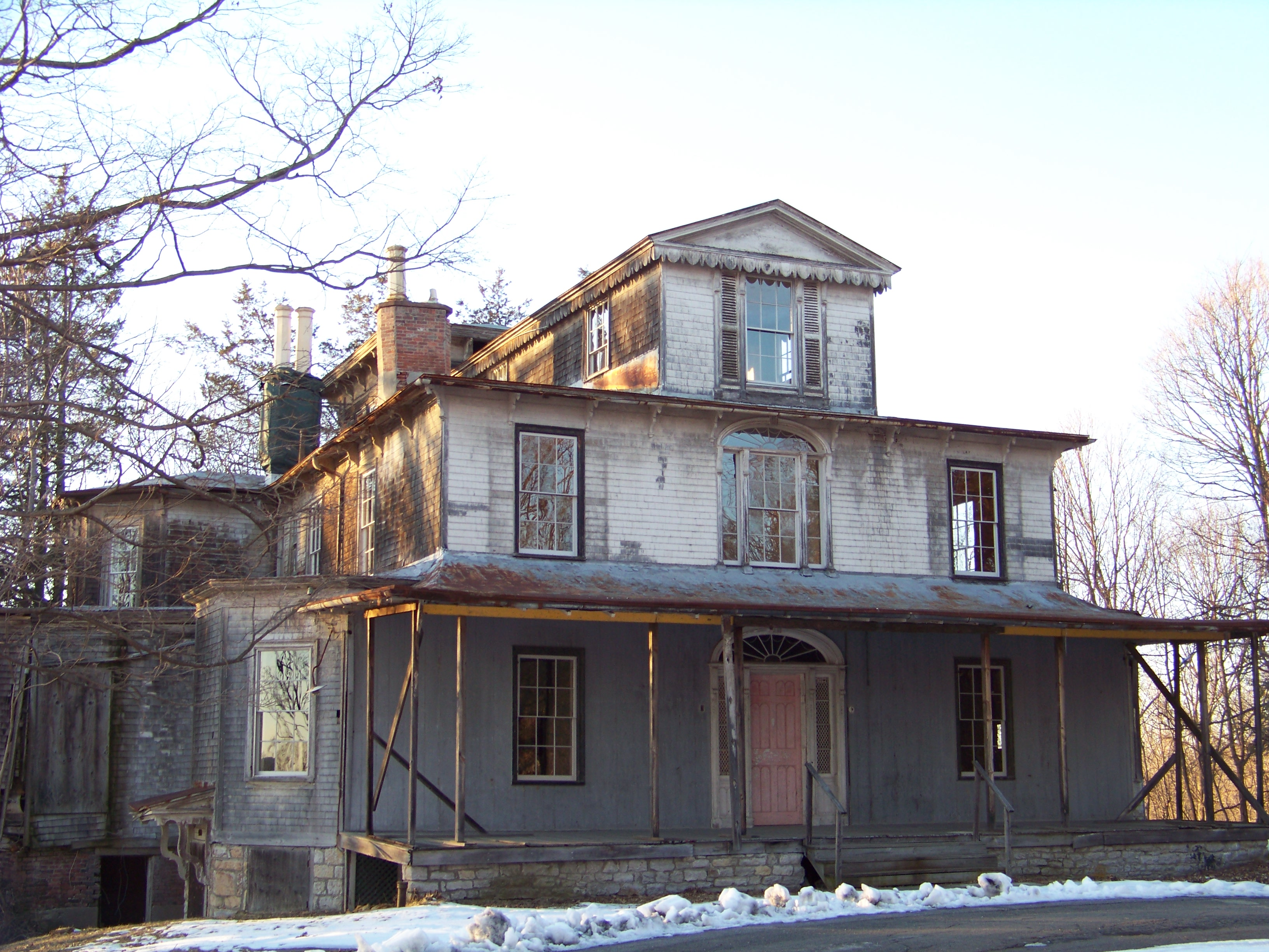 Dr. Oliver Bronson House and Estate, Hudson, Columbia County, NY